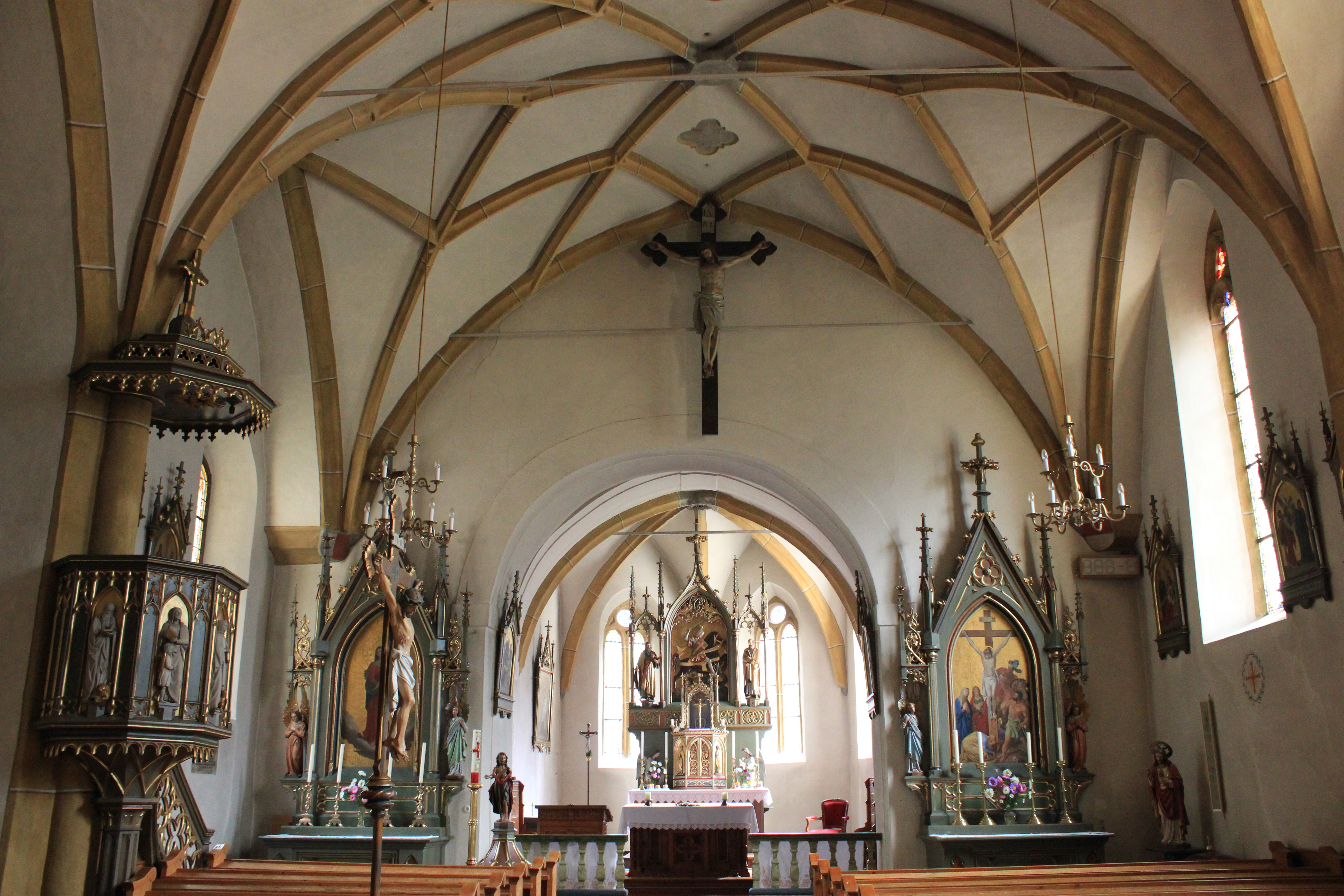 Church of Stall